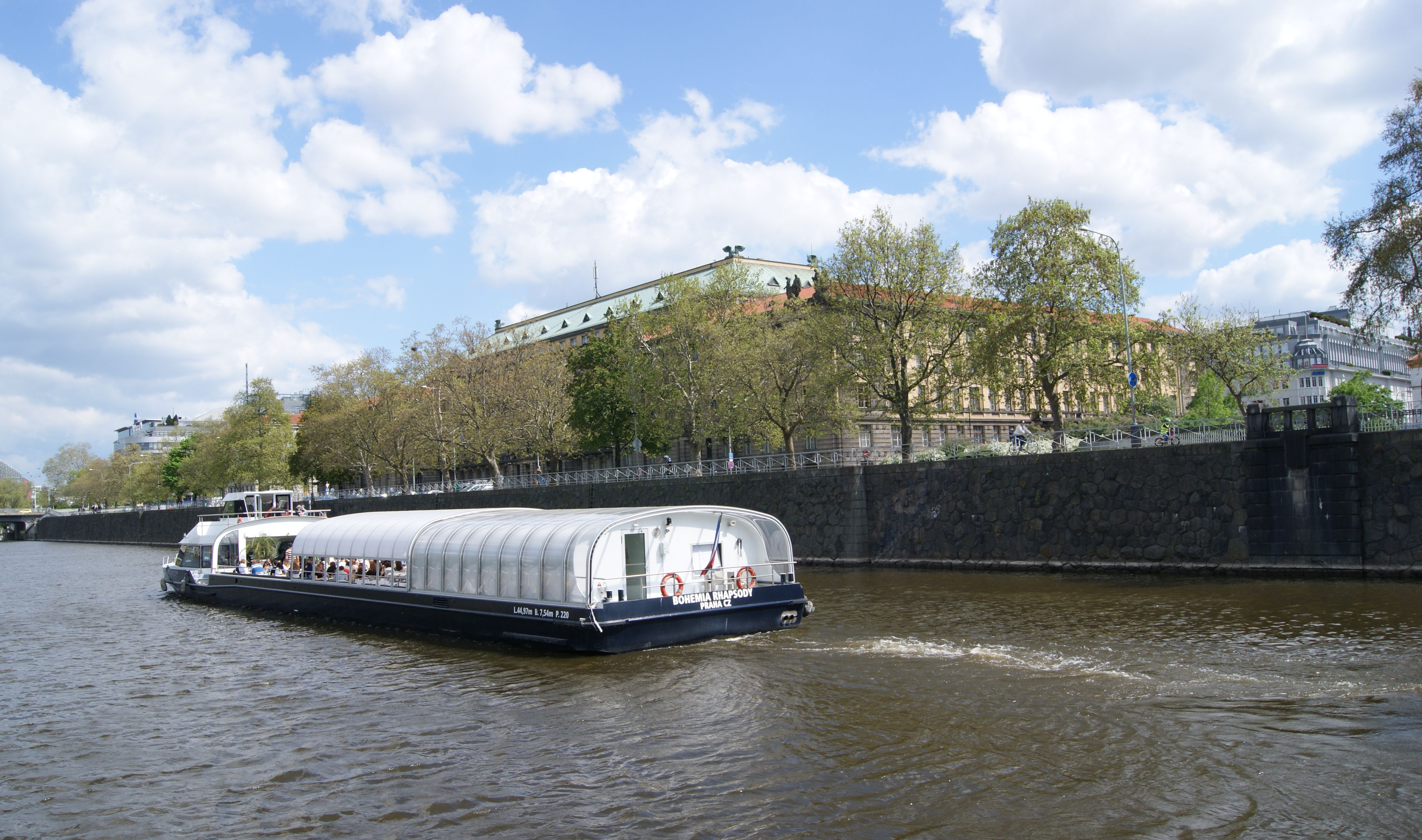 Pleasure boat Bohemia Rhapsody on the Vltava River in Prague.